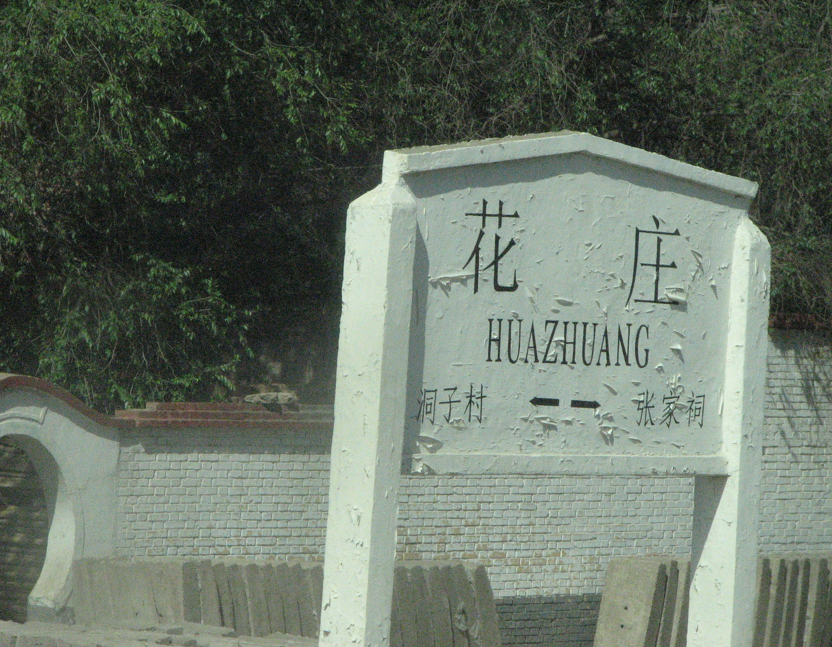 Views from our 47 hour and, 4064 km journey on the Trans-Tibetan Railway from Beijing to Lhasa.